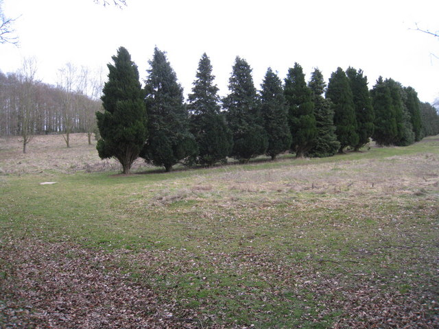 Former break between fairways This line of trees has now matured, they were probably originally planted to form a barrier between fairways. The land was once part of the local golf course.